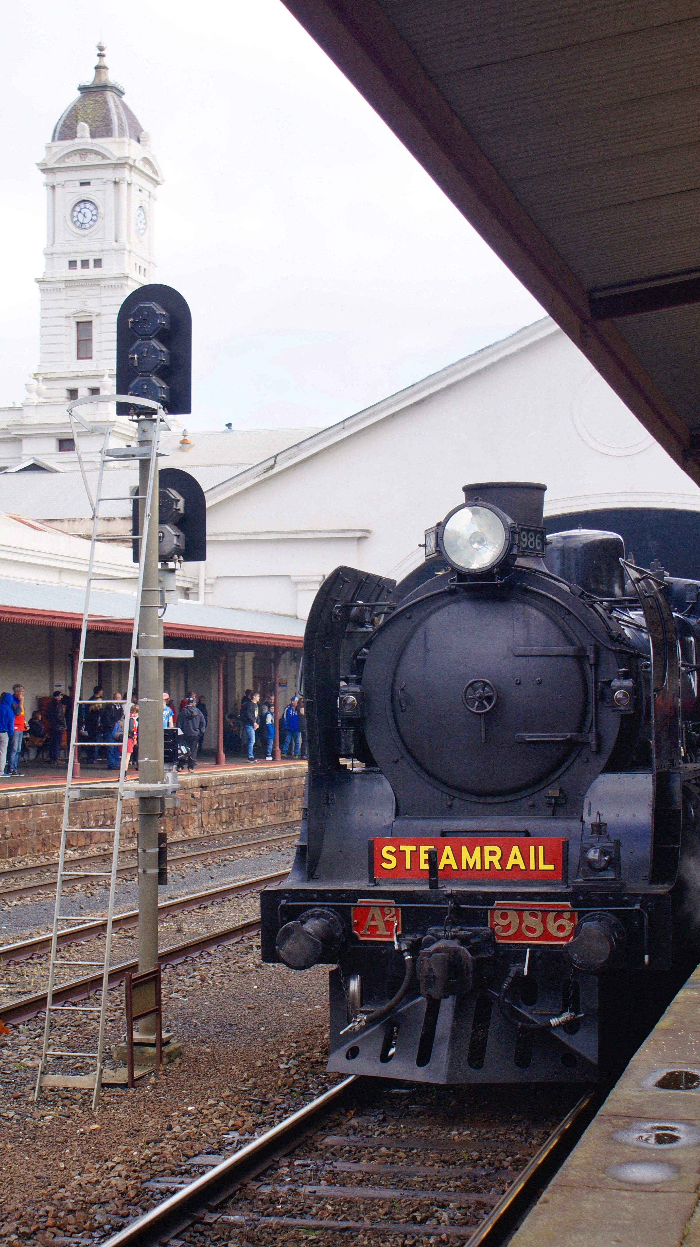 The A2 986 locomotive at Ballarat Railway Station during the annual Ballarat Heritage Weekend.